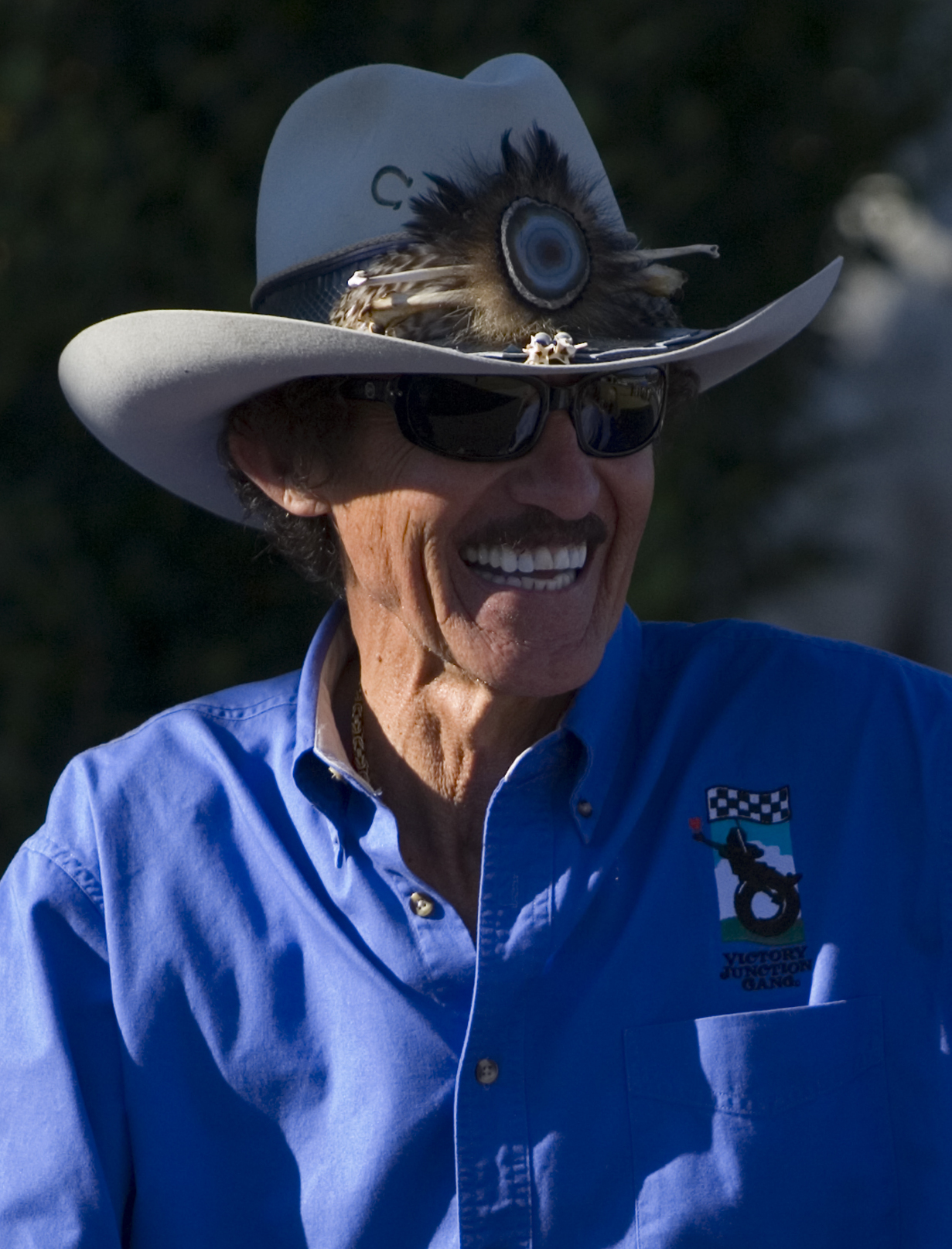 American NASCAR drive Richard Petty meeting George W. Bush at the Victory Junction Gang Camp, Inc., in Randleman, N.C.